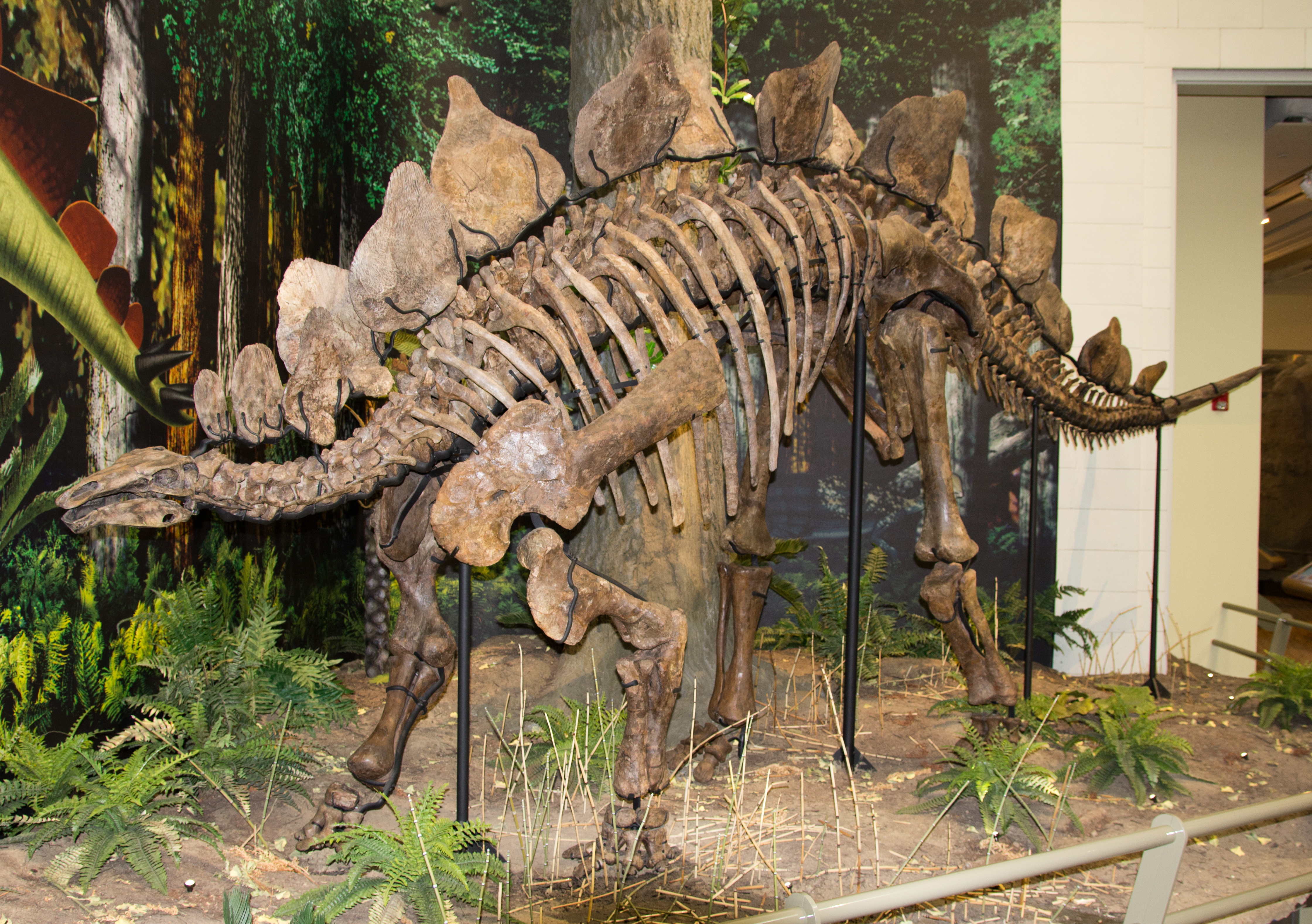 Mounted skeleton of Stegosaurus ungulatus in the Carnegie Museum of Natural History, Pittsburgh, Pennsylvania.